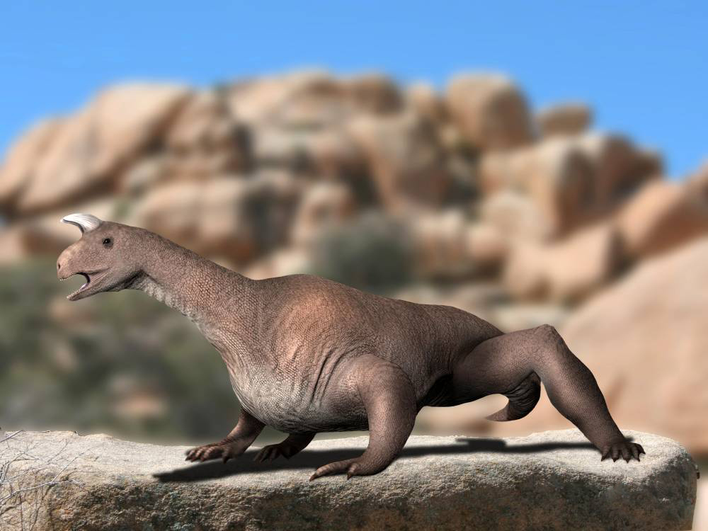 Life restoration of Shringasaurus indicus.